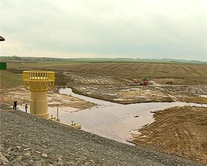 pusty zbiornik